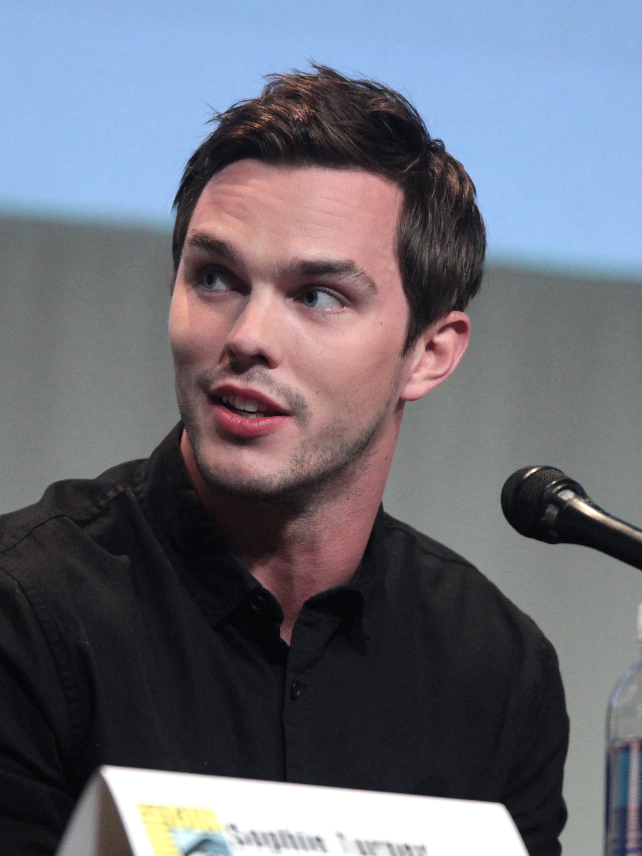 Nicholas Hoult speaking at the 2015 San Diego Comic Con International, for "X-Men: Apocalypse", at the San Diego Convention Center in San Diego, California.